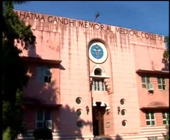 photo of MGMMC indore